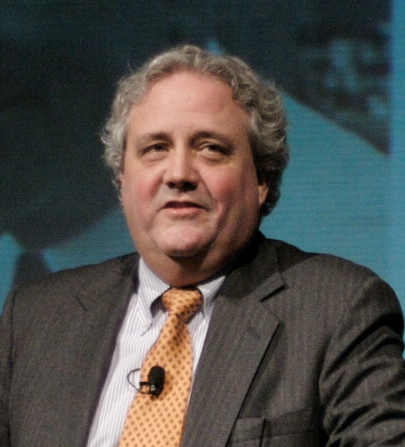 Michael S. Malone is a U.S. author, a former editor of Forbes magazine and host of a talk show on PBS.